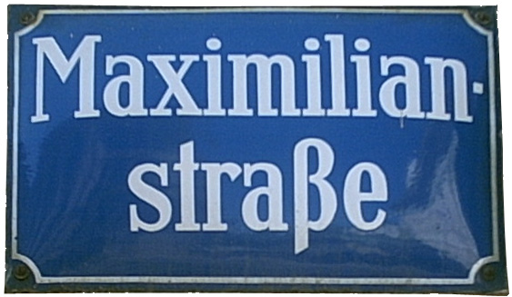 Street sign “Maximilianstraße”